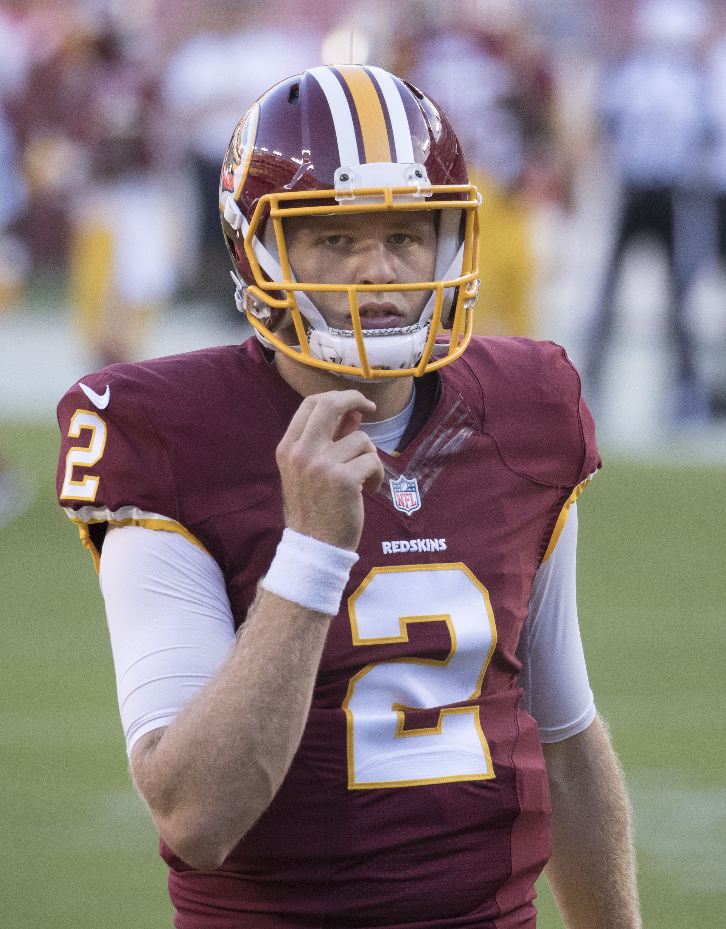 Jets at Redskins 8/19/16